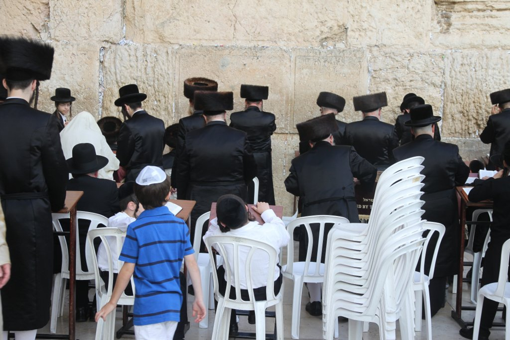 Jewish man pray at the western wall in Jerusalem